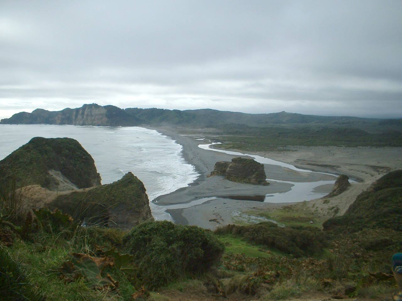 Playa tricolor